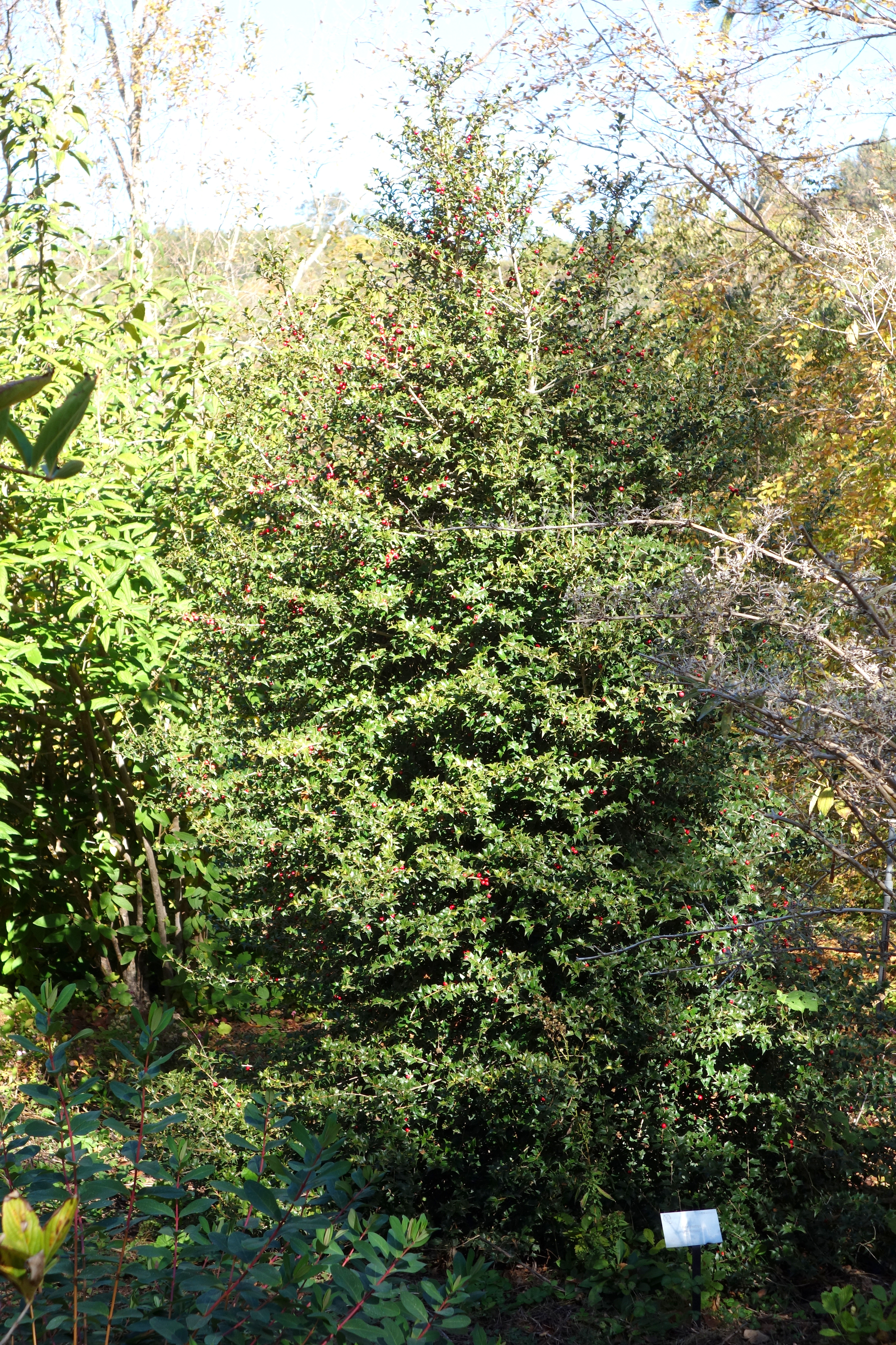 Botanical specimen in Quarryhill Botanical Garden, Glen Ellen, California, USA.